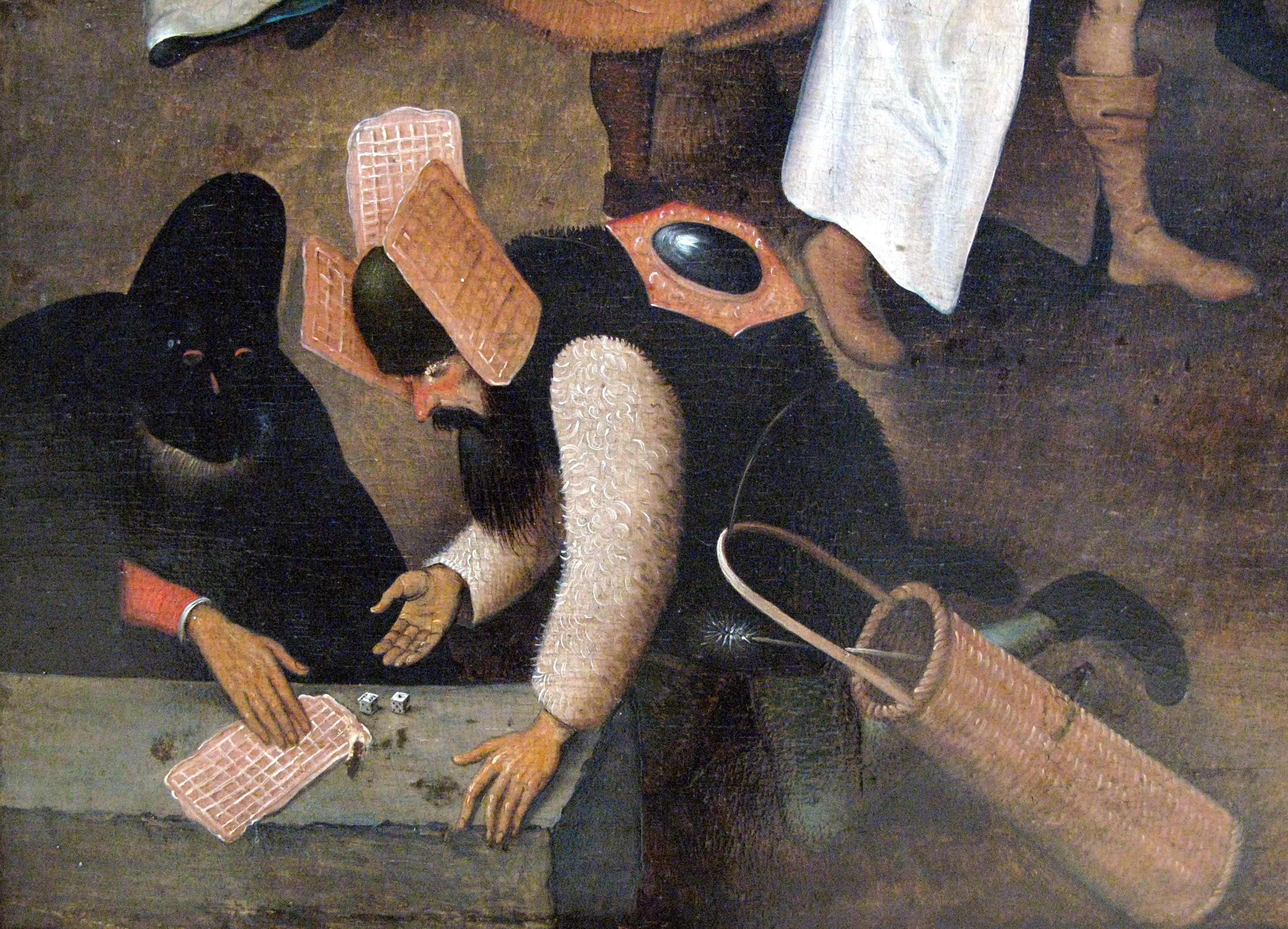 Battle of Carnival and Lent